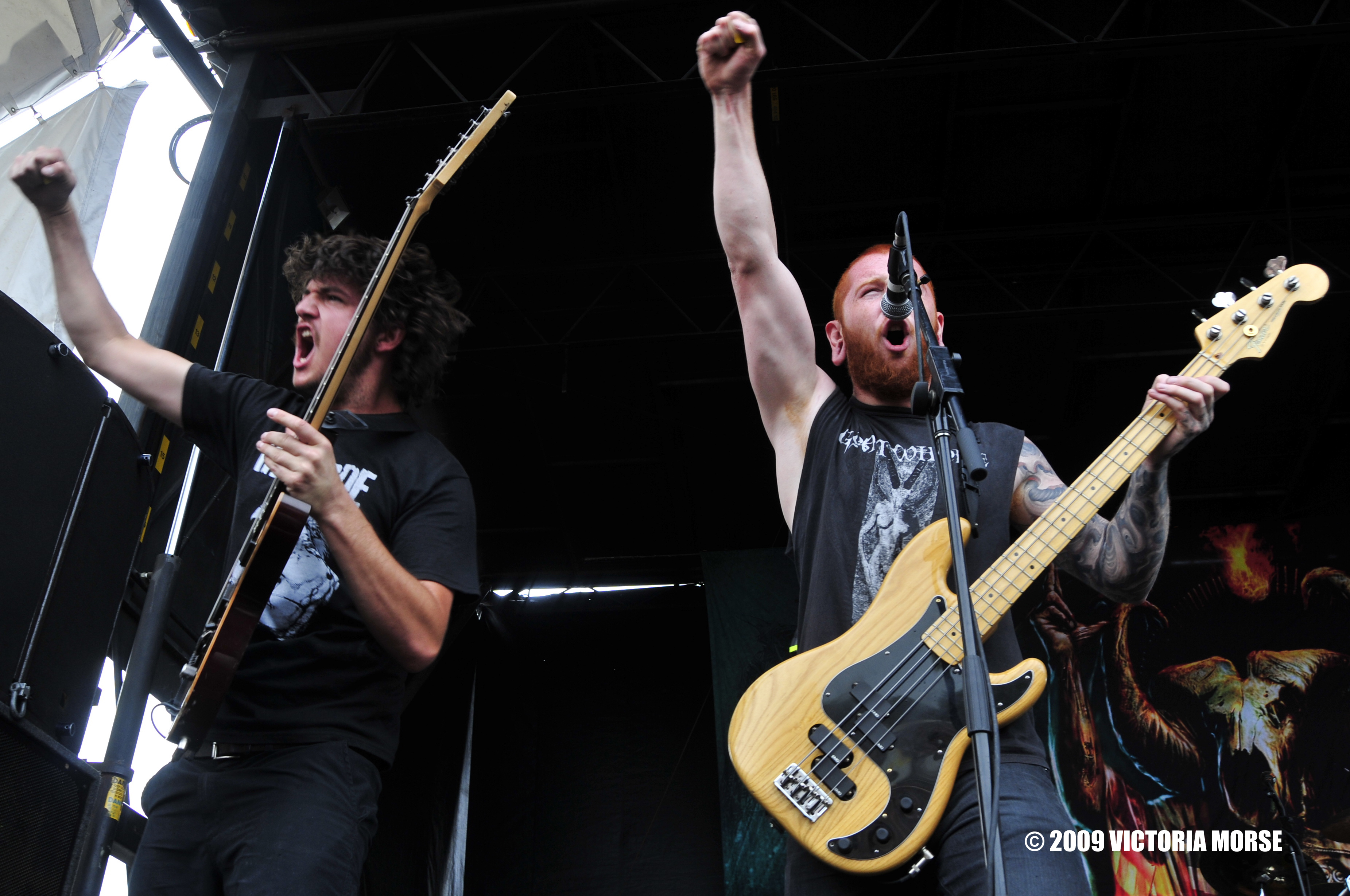 Photo taken August 8 @ Comcast Theatre.